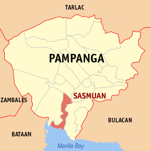 Map of Pampanga showing the location of Sasmuan